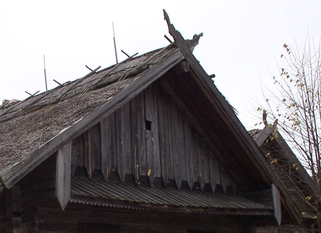 House from Sadavichy, Kapyl district. State museum of folk architecture and life, Belarus.